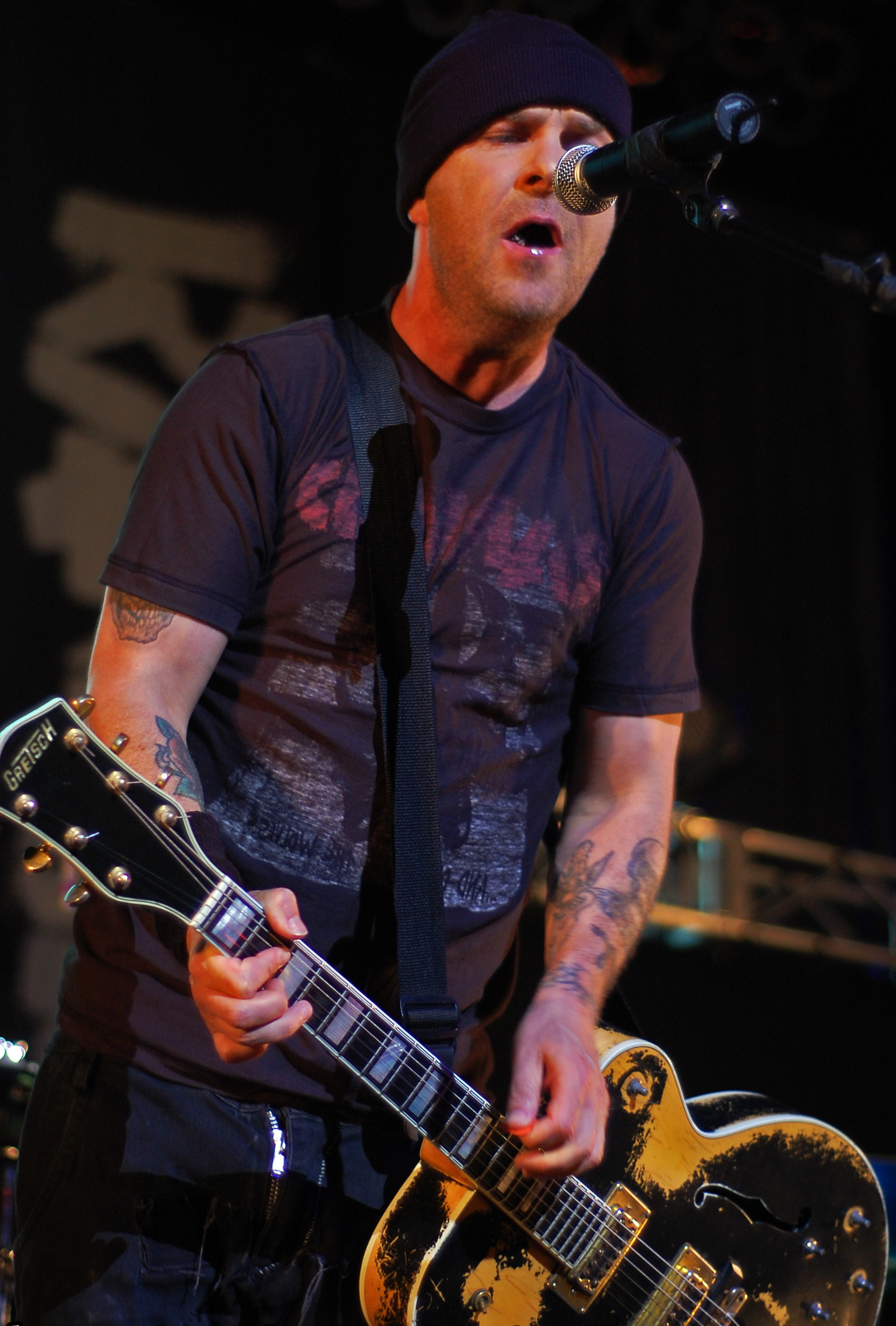 Tim Armstrong live at the House of Blues, Boston